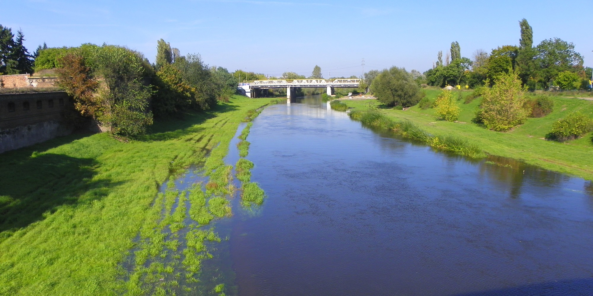 Cybina river